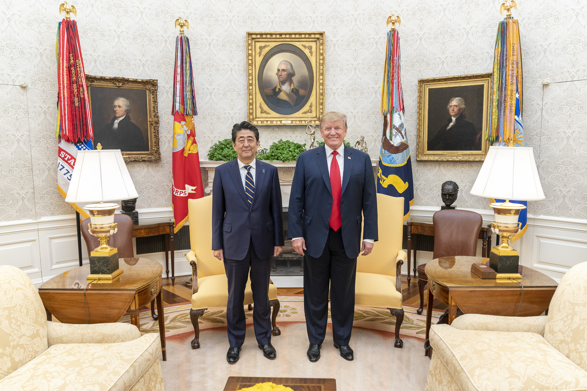 President Donald J. Trump meets with Japanese Prime Minister Shinzo Abe Friday, April 26, 2019, in the Oval Office of the White House. (Official White House Photo by Shealah Craighead)